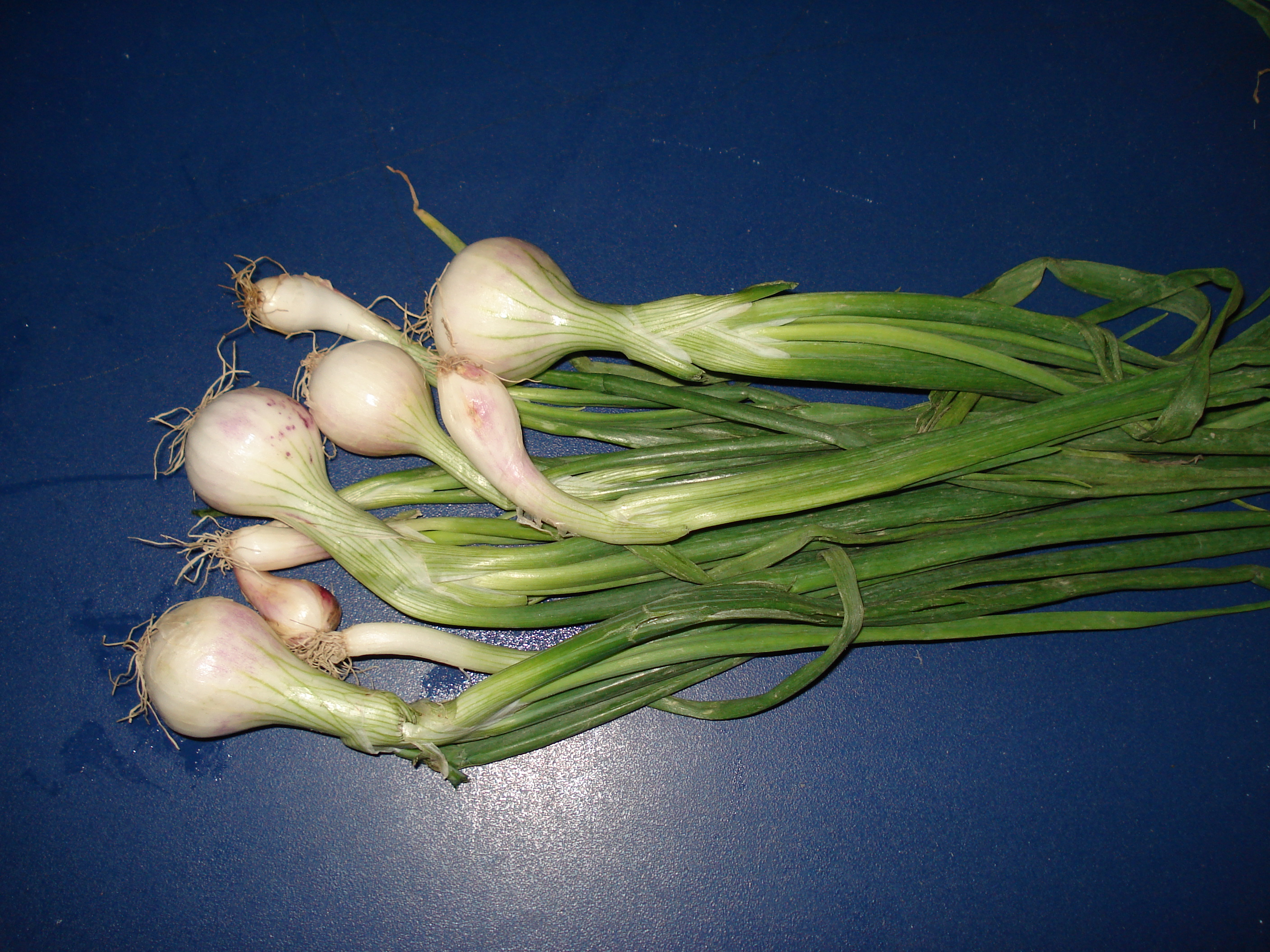 Harri Piyaz